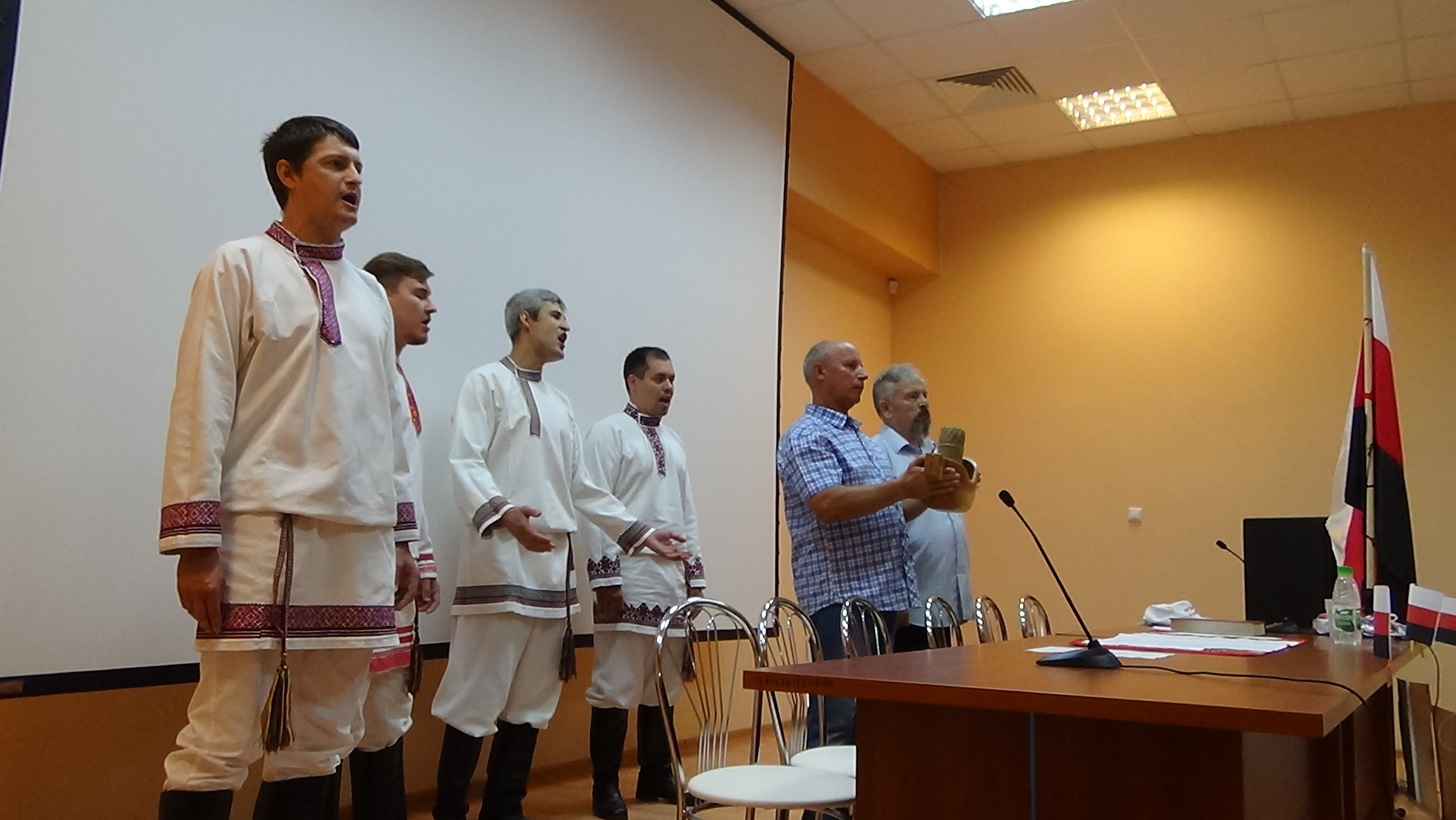 Folk group «Torama» opens the V Erzya Congress song «Tyushtya», Saransk, June 7, 2016